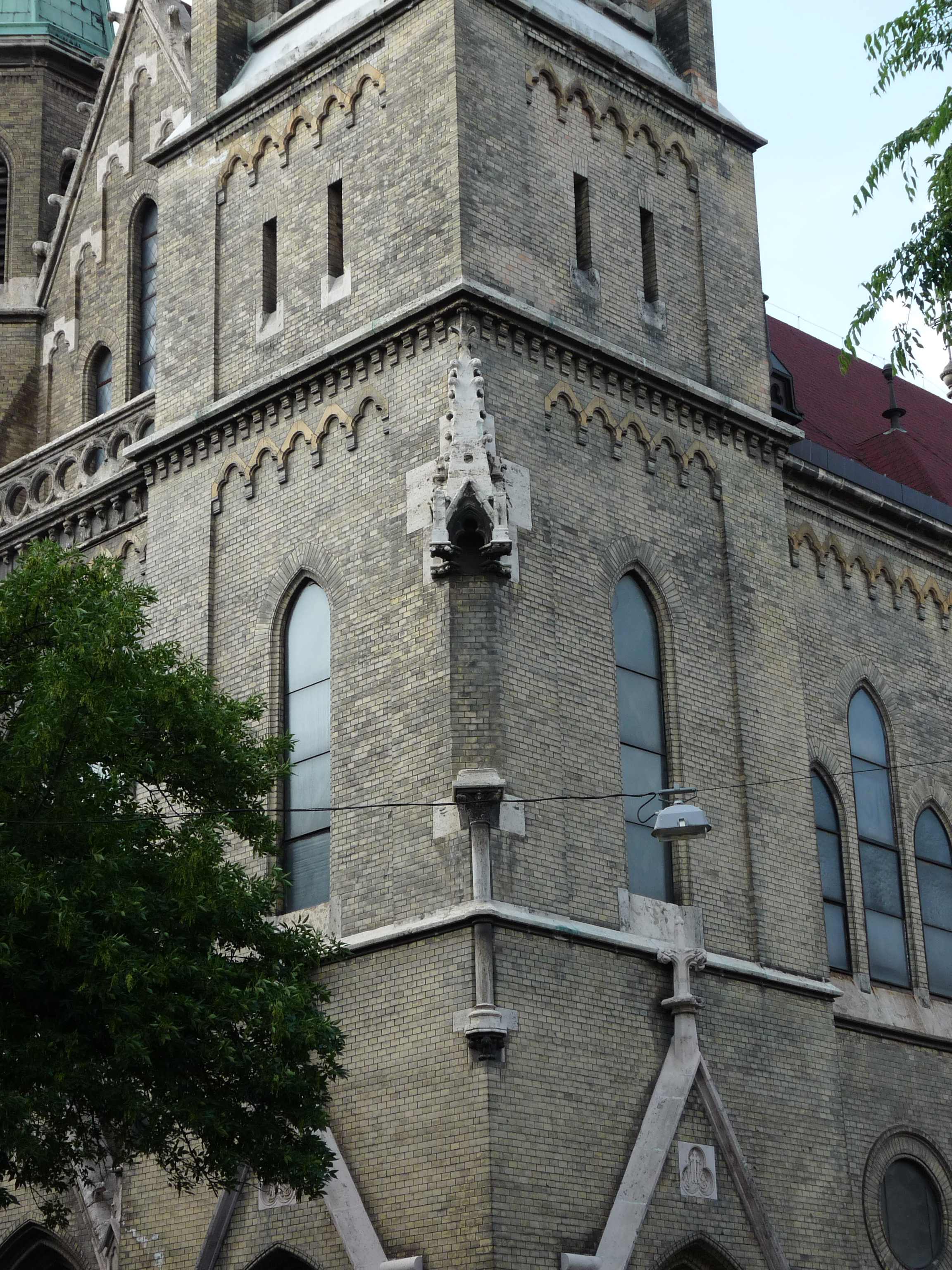 Carmelite church in Budapest